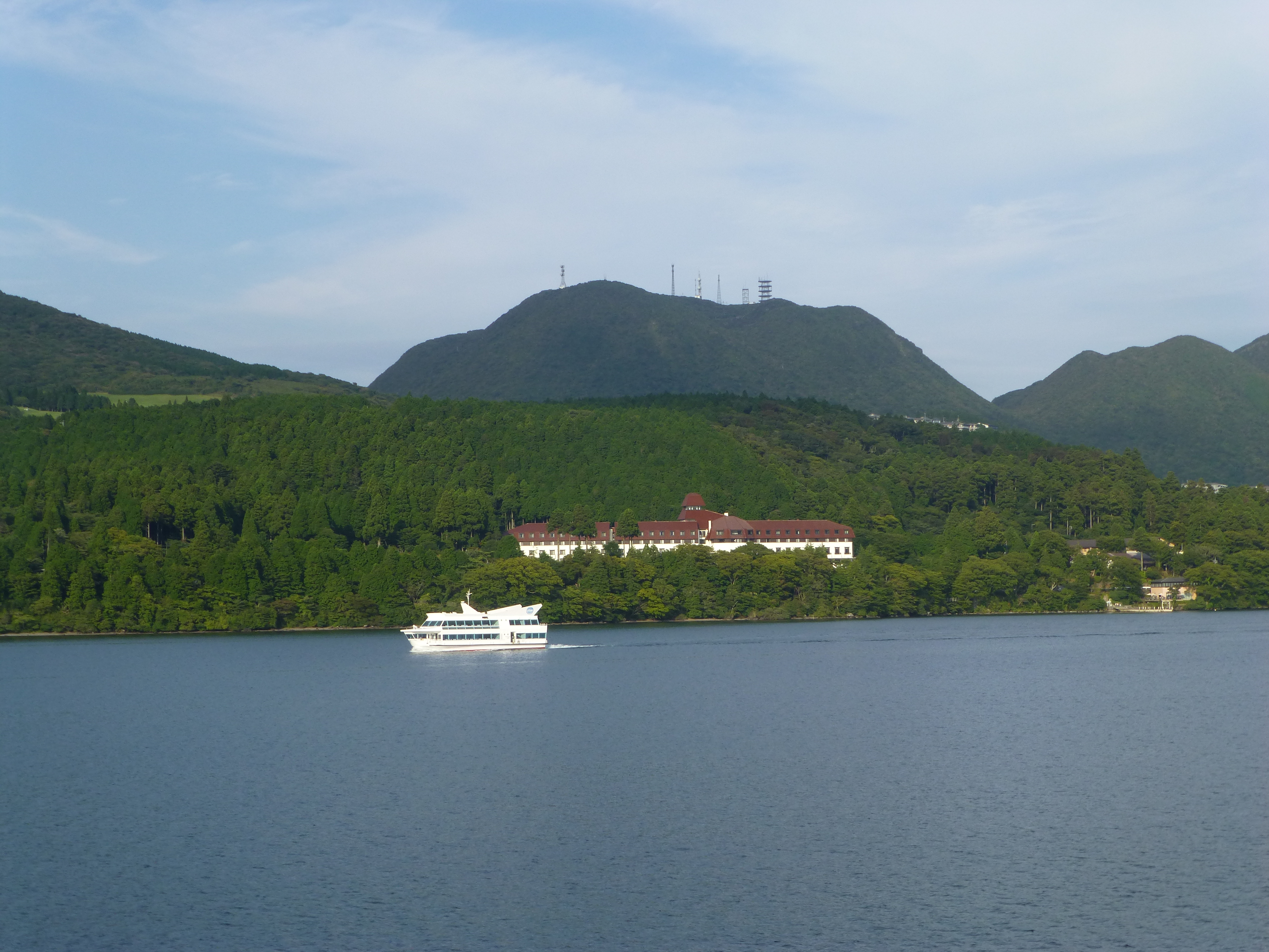 Hotel de Yama, Lake Ashi, Hakone, Kanagawa prefecture, Japan.